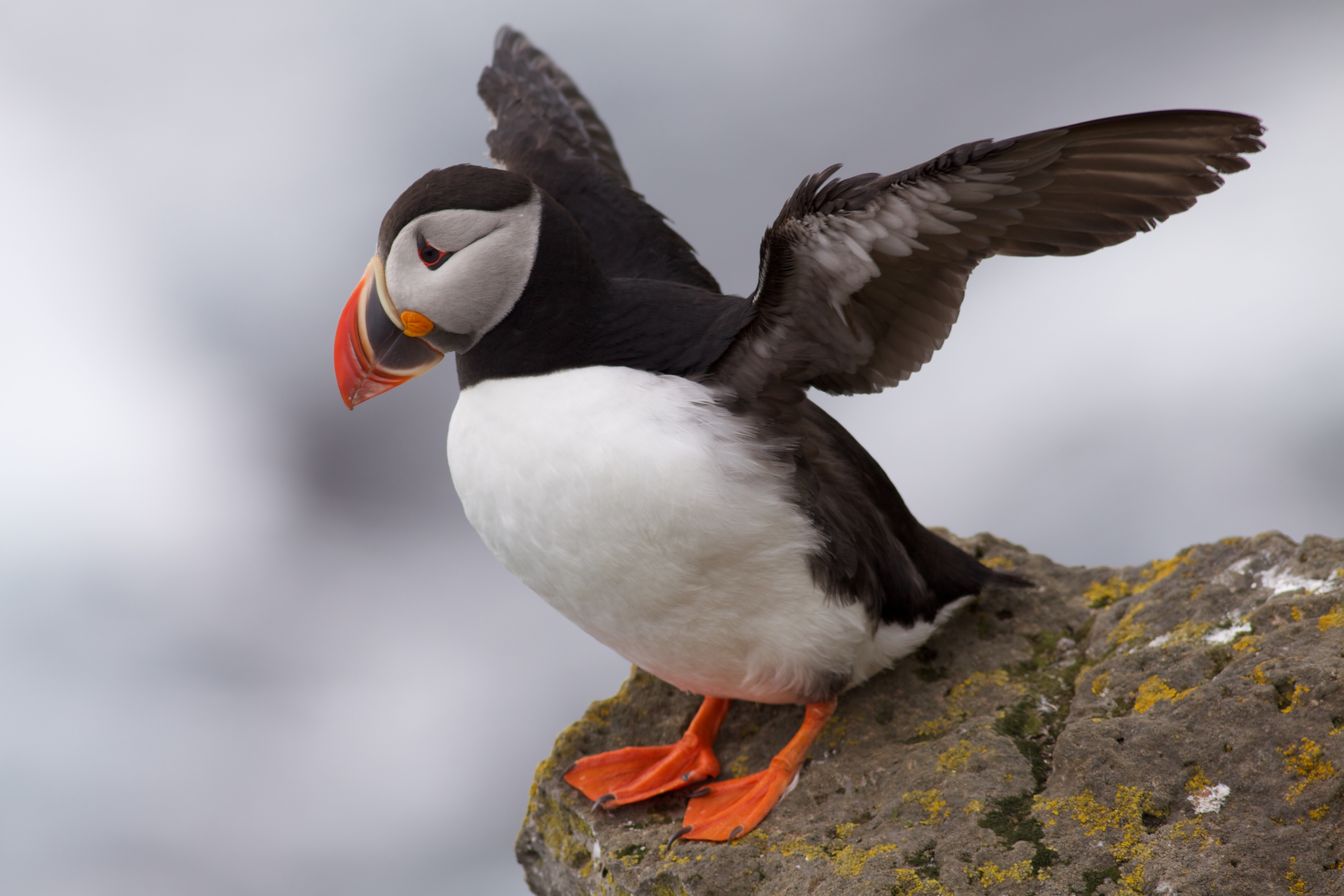 Atlantic puffin (Fratercula arctica) spreading its wings, Iceland